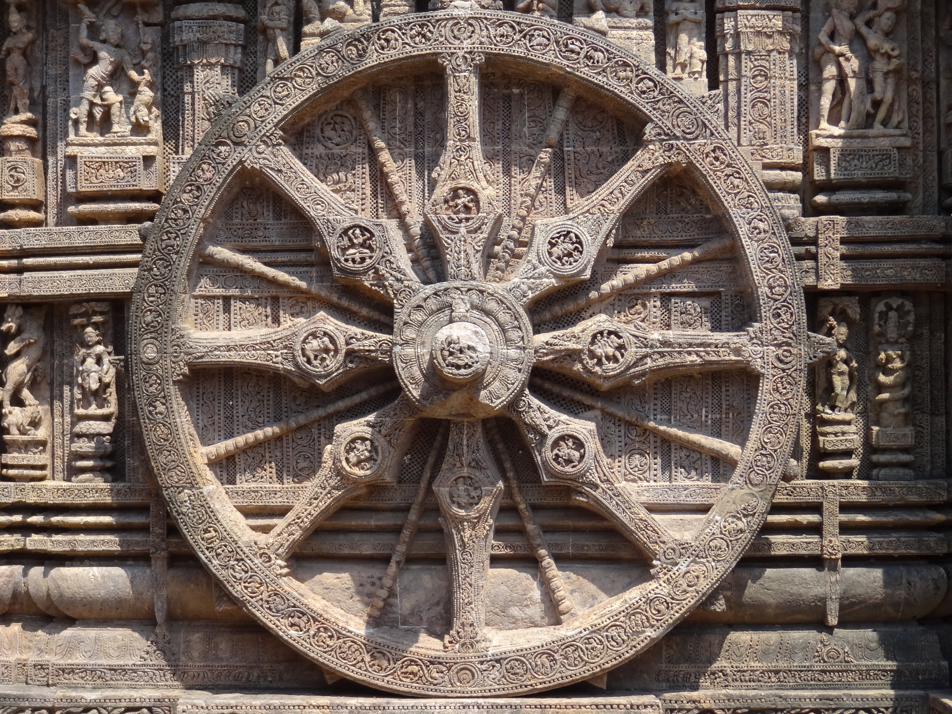 The Chariot Wheel of Sun Temple, Konark, Odisha